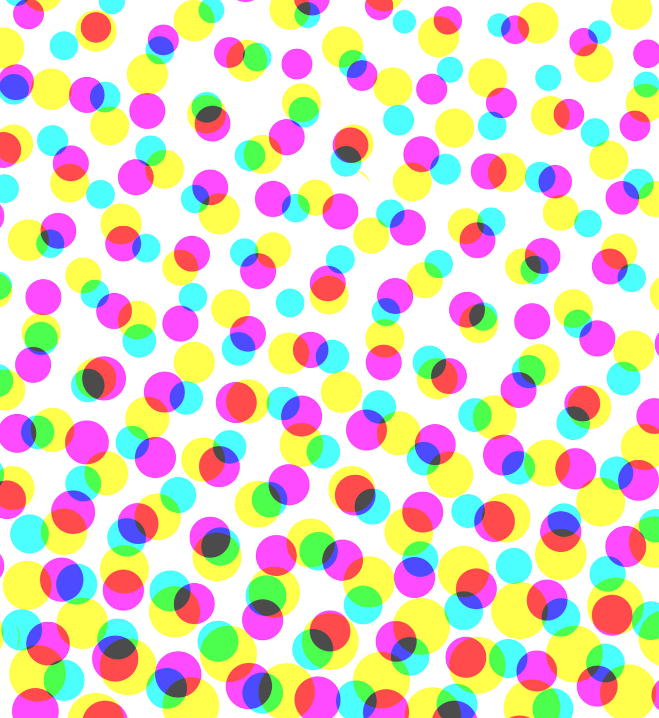 Halftoning print through the use of yellow, magenta , and cyan inks as primaries.